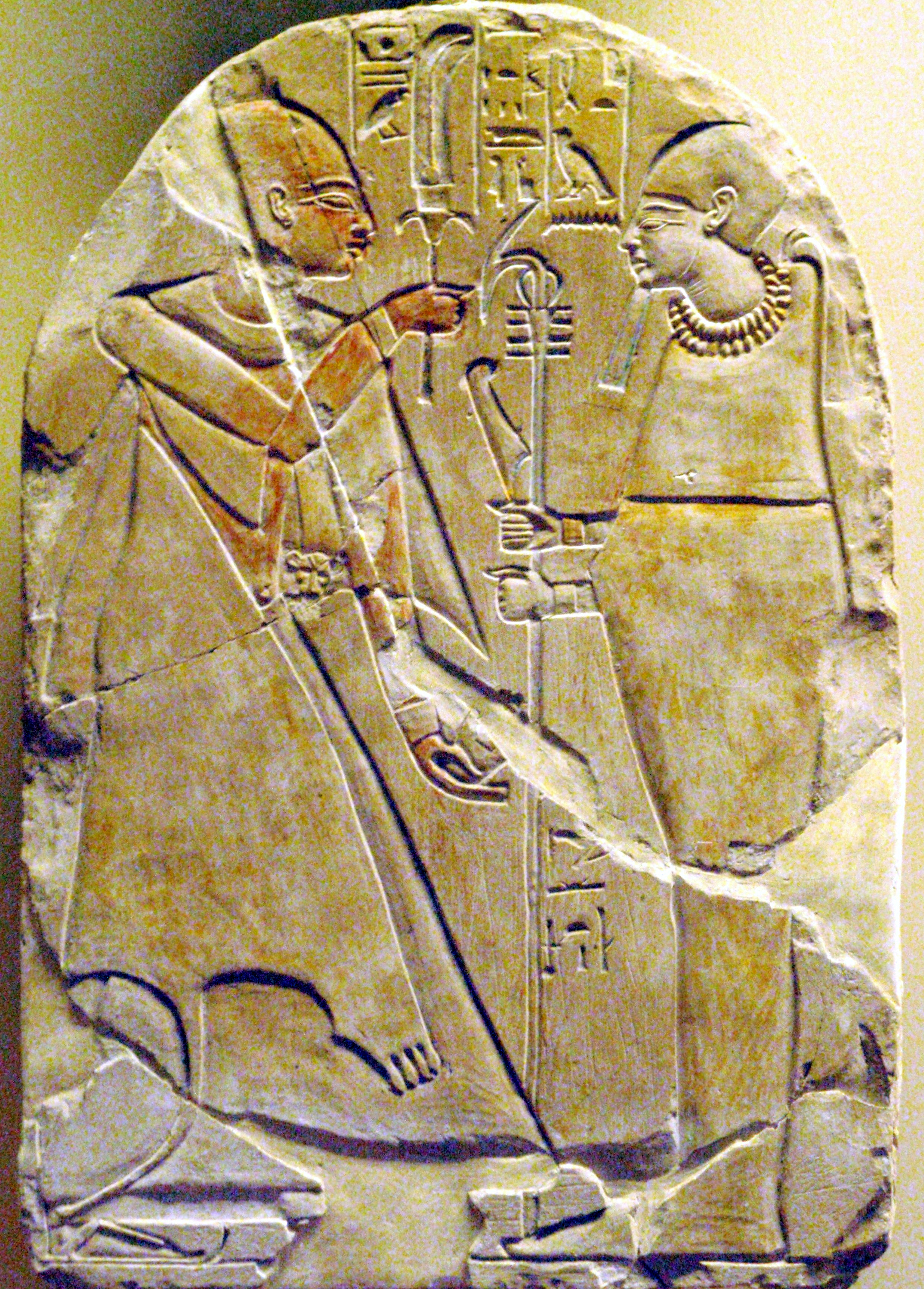 Votive stele dedicated to the god Ptah in the temple of Deir el-Medina by Nakht-em-Mut, foreman of the workers in charge of the building and decoration of the tombs in the Valley of the Kings. New Kingdom, XX Dynasty, c. 1150 B.C.